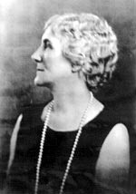 Photograph of American Artist Mayna Treanor Avent.